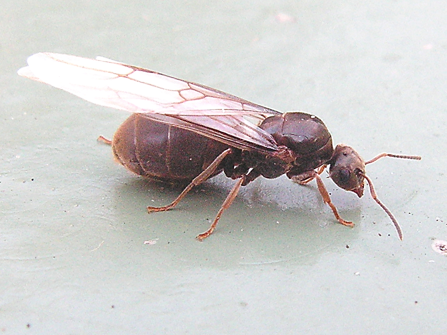 Lasius niger (Black garden ant), this one a queen still with its wings. Shortly after this photo was taken, the queen tore off its wings (see Image:Lasius_Niger_wingless_queen.jpg